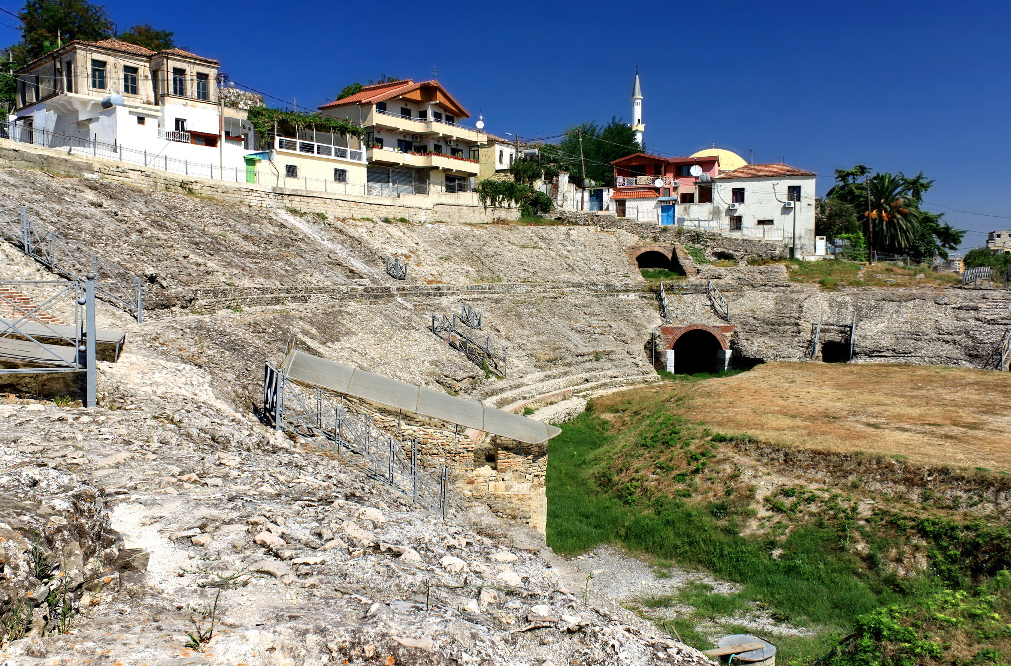 Durrës Amphitheatre